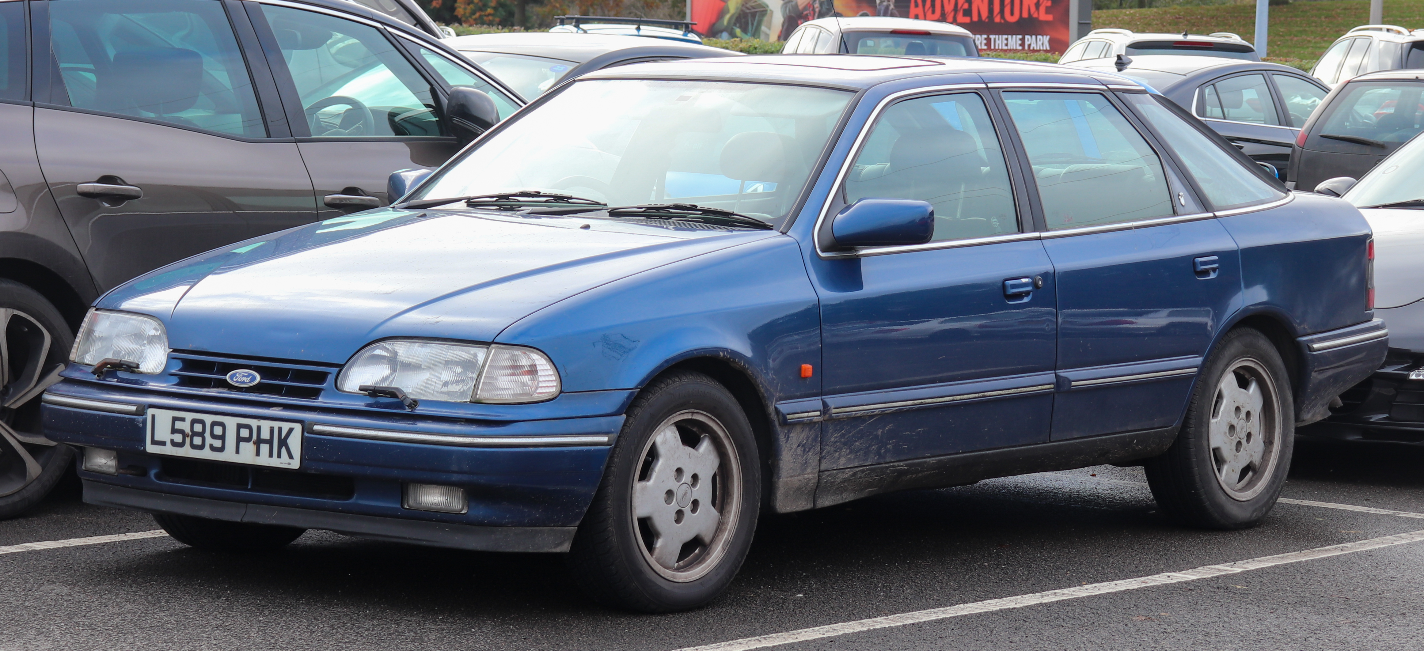 1994 Ford Granada Ghia Diesel Turbo 2.5 Front Taken in the NEC Car Park, Birmingham